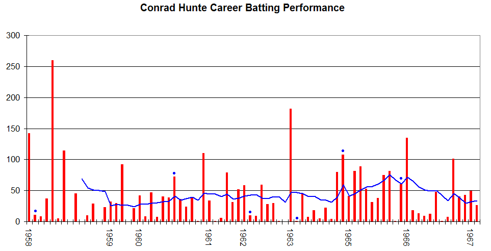 This graph details the Test Match performance of Conrad Hunte. It was created by Raven4x4x. The red bars indicate the player's test match innings, while the blue line shows the average of the ten most recent innings at that point. Note that this average cannot be calculated for the first nine innings. The blue dots indicate innings in which Hunte finished not-out. This graph was generated with Microsoft Excel 2002, using data from Cricinfo and .au.